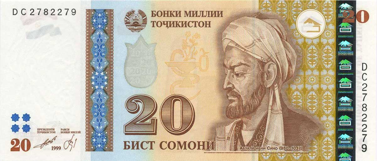 20 Somoni du Tadjikistan, 1999Тоҷикӣ: 20 сомонии тоҷикистонӣ (тоҷикӣ), соли 1999